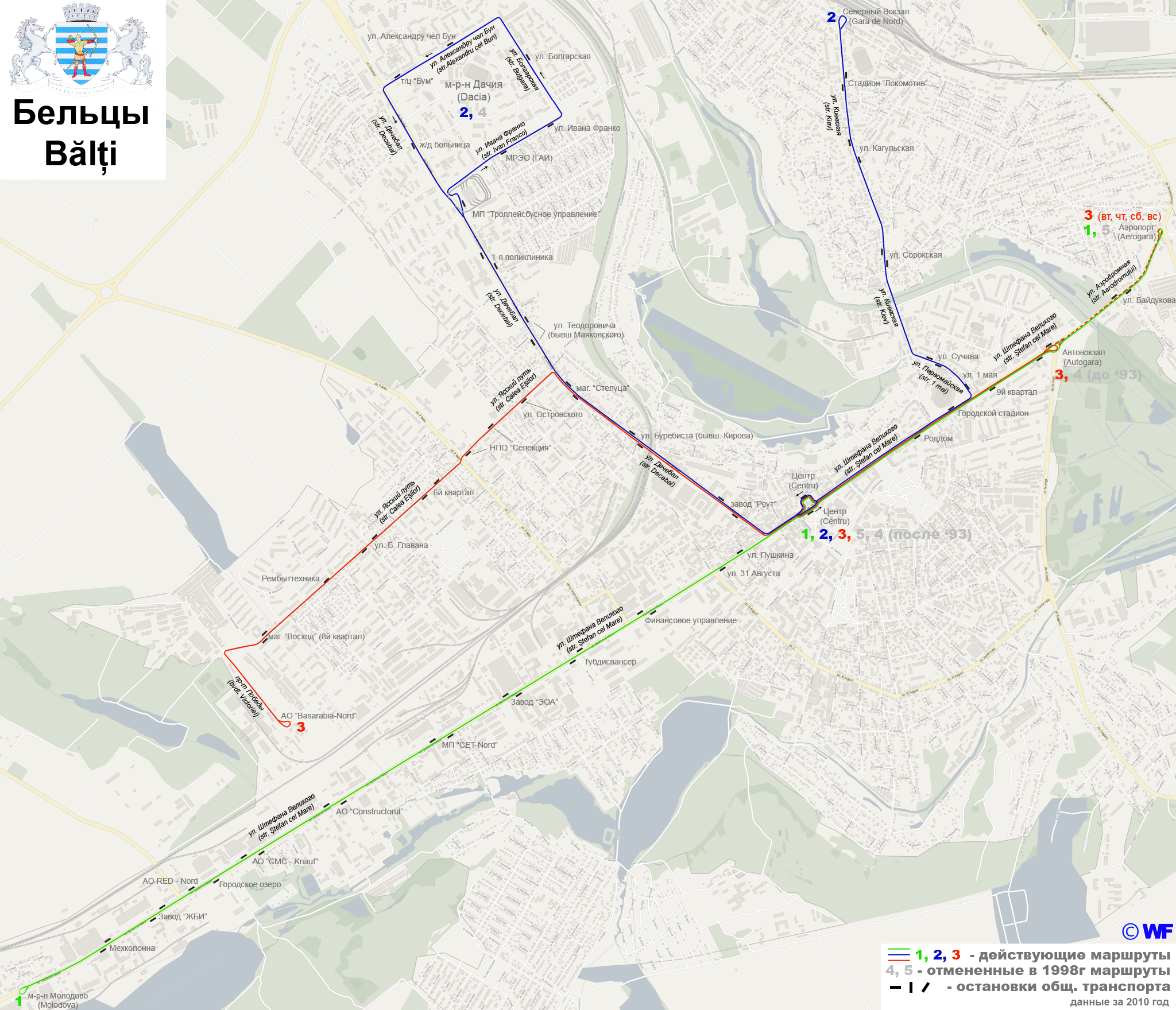 Balti - Scheme of trolleybus routes